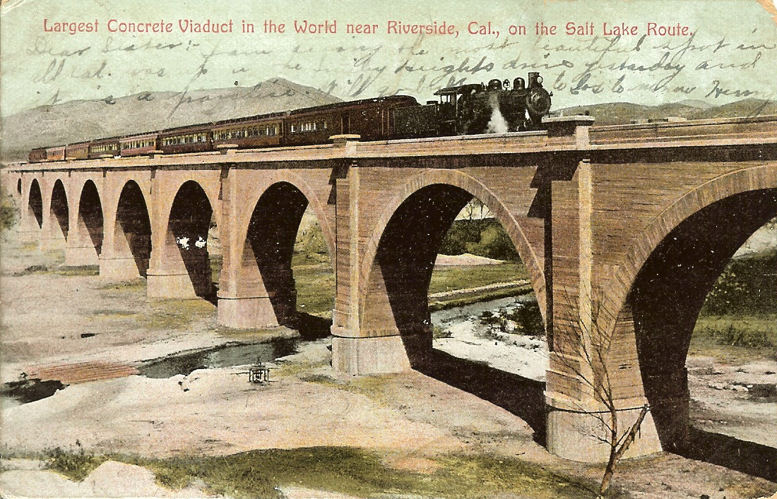 1907 post card of the "Largest concrete viaduct in the world near Riverside, Cal., on the Salt Lake Route." Viaduct over the Santa Ana River in Riverside, California. Located on the Los Angeles and Salt Lake Railroad, later the Union Pacific Railroad.